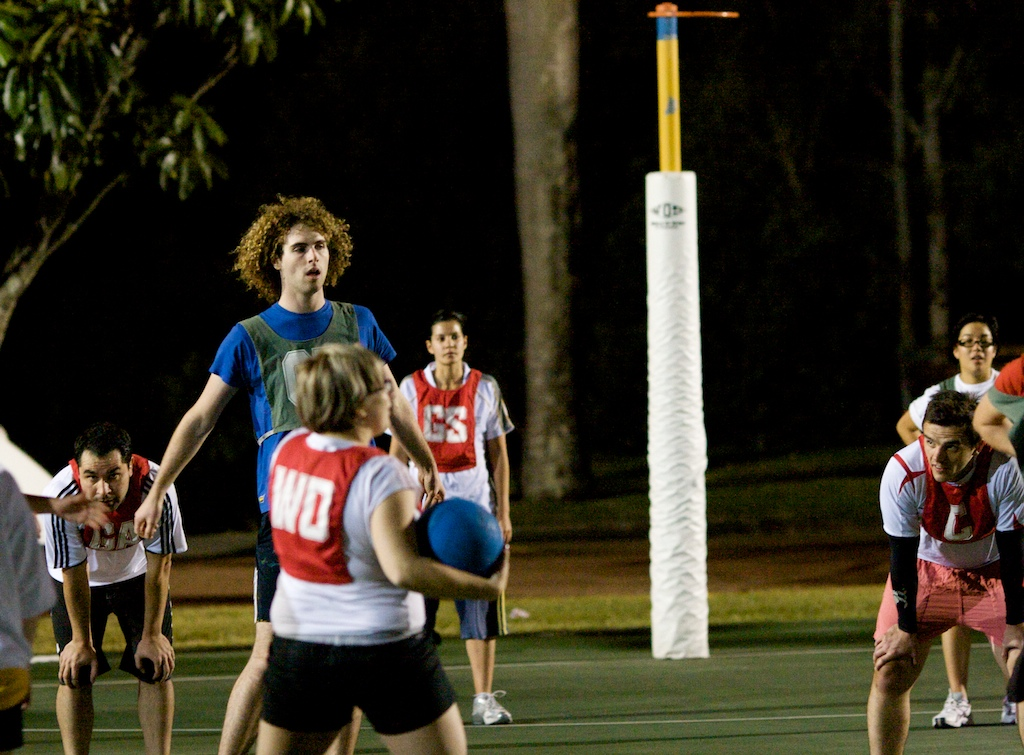 Local evening mixed-gender netball game in 2009 at the University of Queensland in Brisbane, Australia.